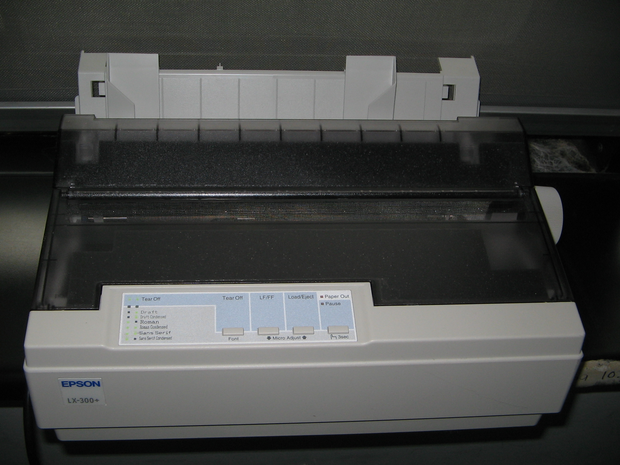 An Epson LX-300+ 9-pin dot matrix printer.